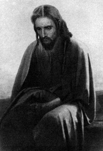 Christ in the desert, first version (painting by Ivan Kramskoi)